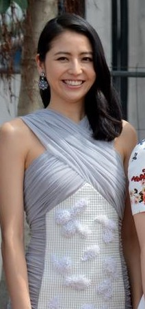 Masami Nagasawa at the Cannes film festival